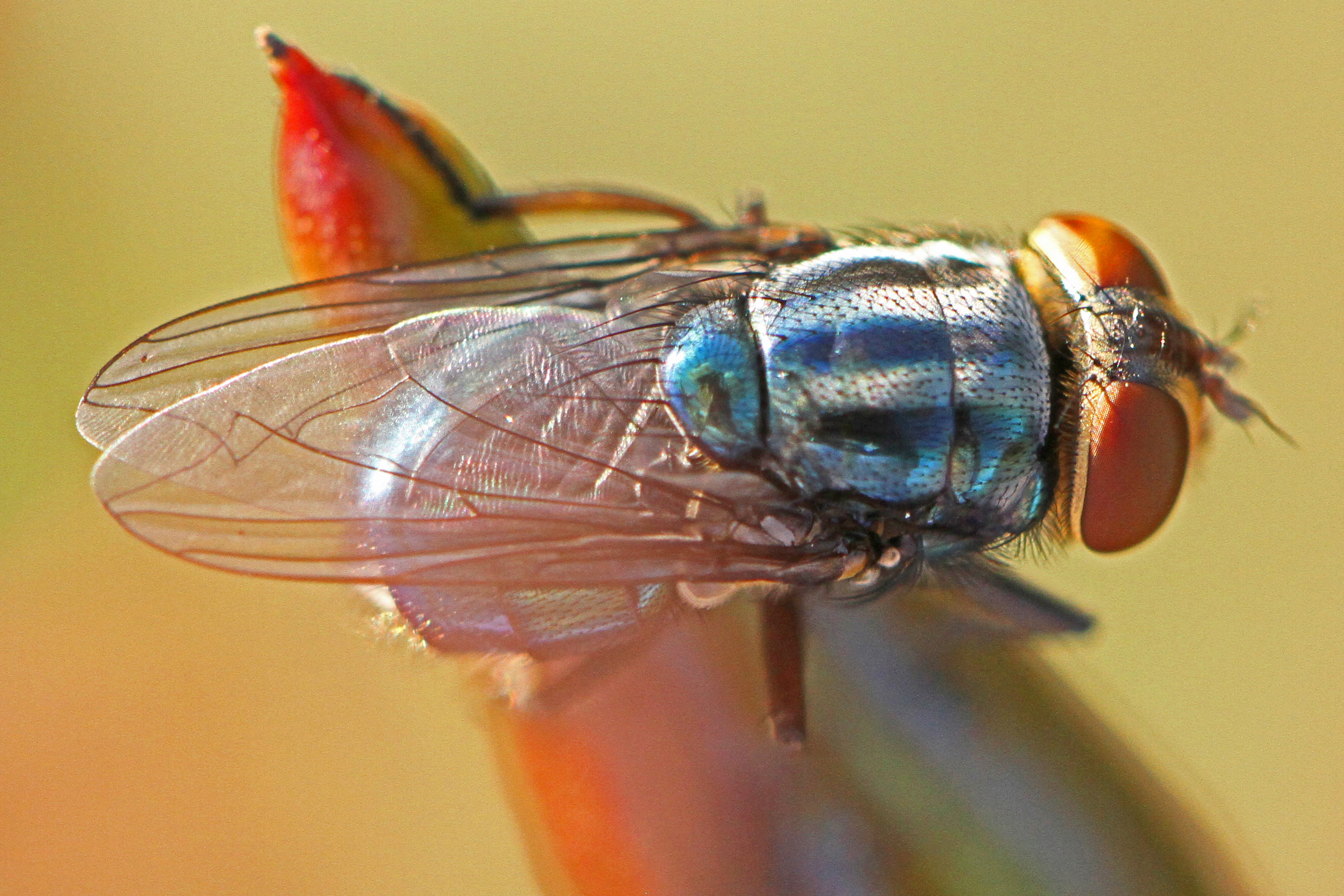 Secondary Screwworm - Cochliomyia macellaria, Meadowwood Farm SRMA, Mason Neck, Virginia. As detailed by Wikipedia, the maggots eat dead flesh, and are sometimes used by forensic scientists to determine the post mortem interval and also whether the deceased had drugs or mind-altering chemicals in their blood when they died.